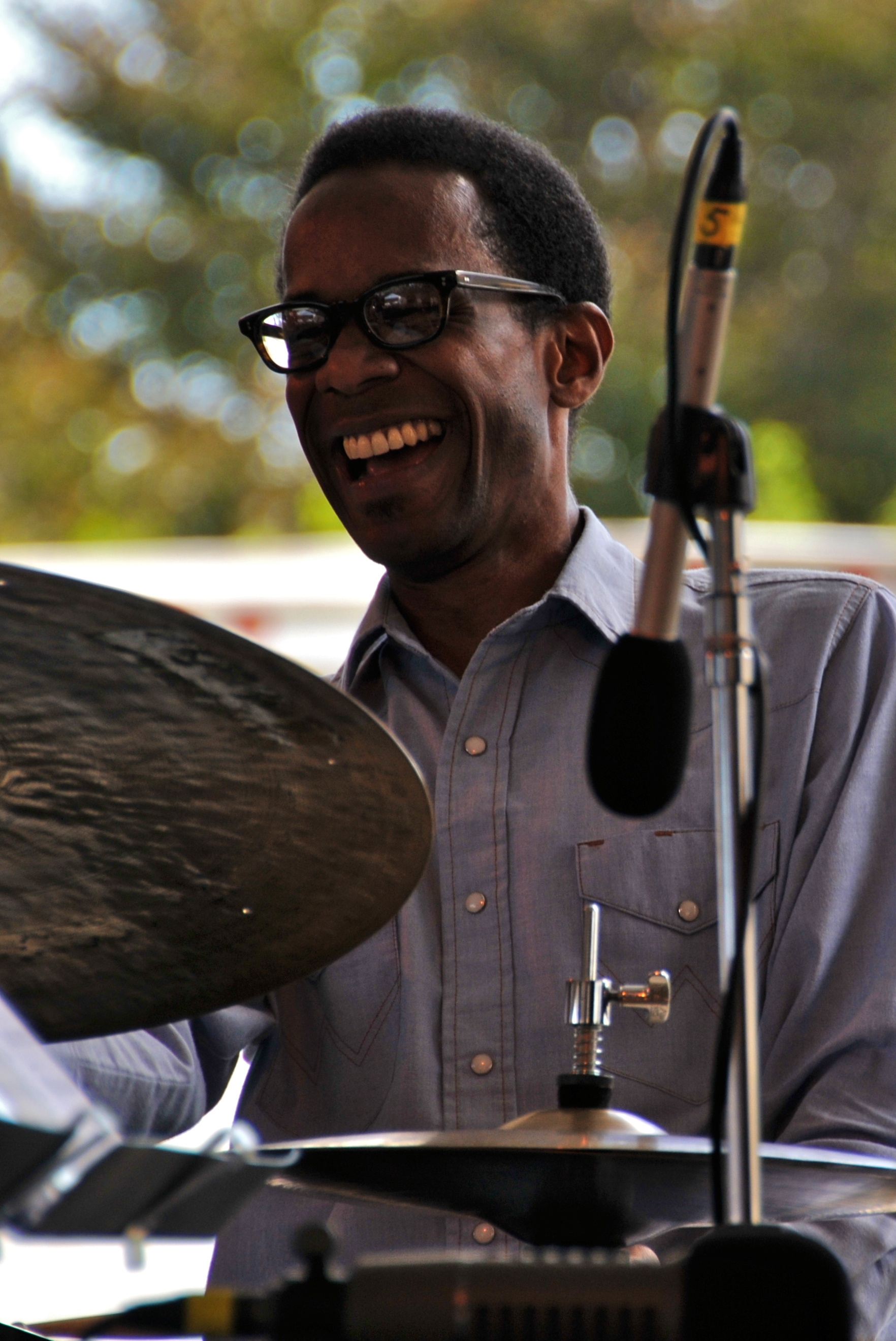 Brian Blade, drummer of jazz and alternative music